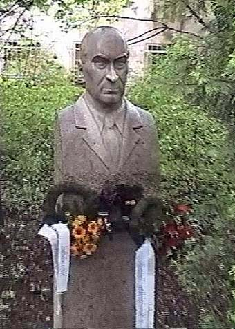 Statue of professor Sándor Geleji, University of Miskolc, Hungary. Sculptor: Miklós Varga